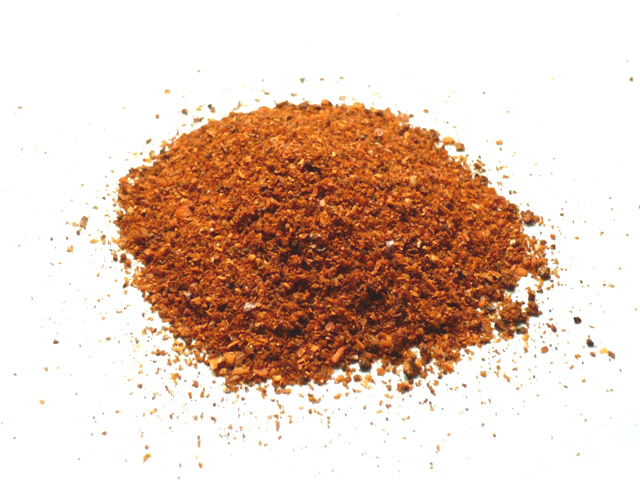 Aleppo pepper, a seasoning produced in Syria. Photo taken in Kent, Ohio with a Panasonic Lumix digital camera (model DMC-LS75).